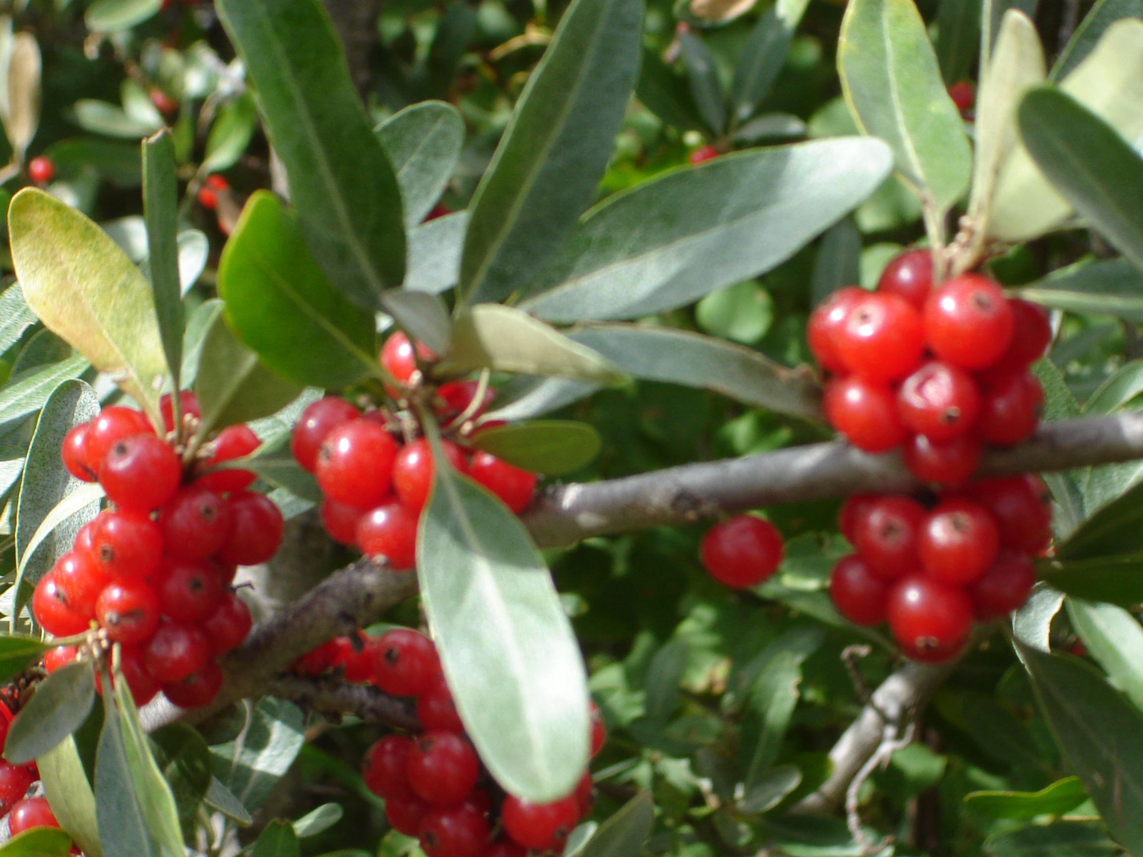 Julia Adamson, photographer in the Saskatoon area. If you plan on using this illustration in wikipedia or outside of wikipedia, an email would be greatly appreciated.